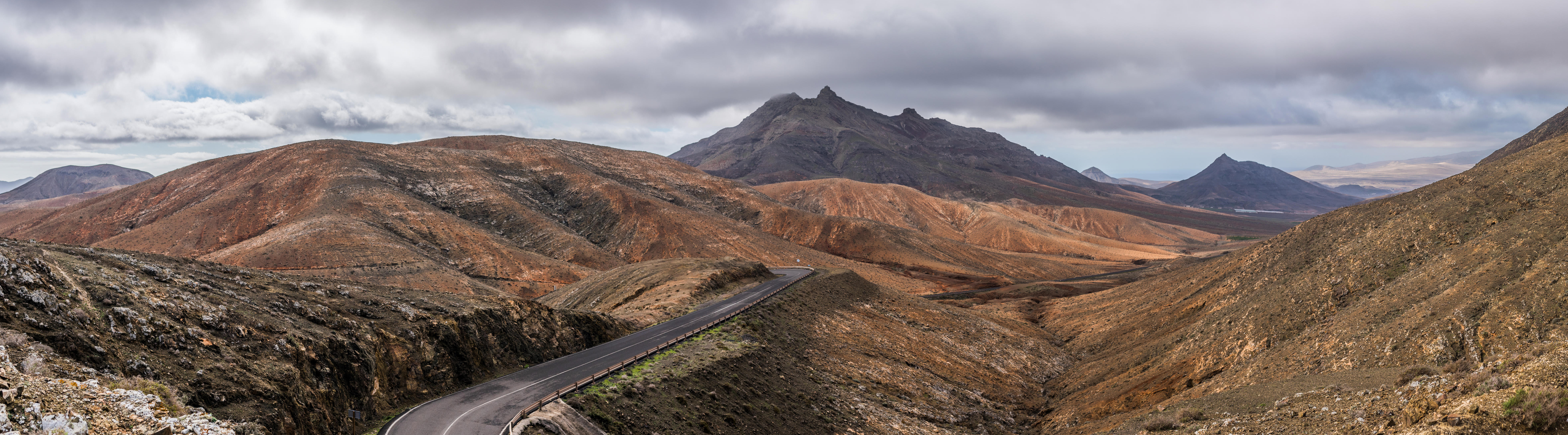 Fuerteventura, Canary Islands, March 2018